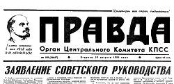 Pravda newspaper front page (around 1950s). The head article title says: From the Soviet Leadership